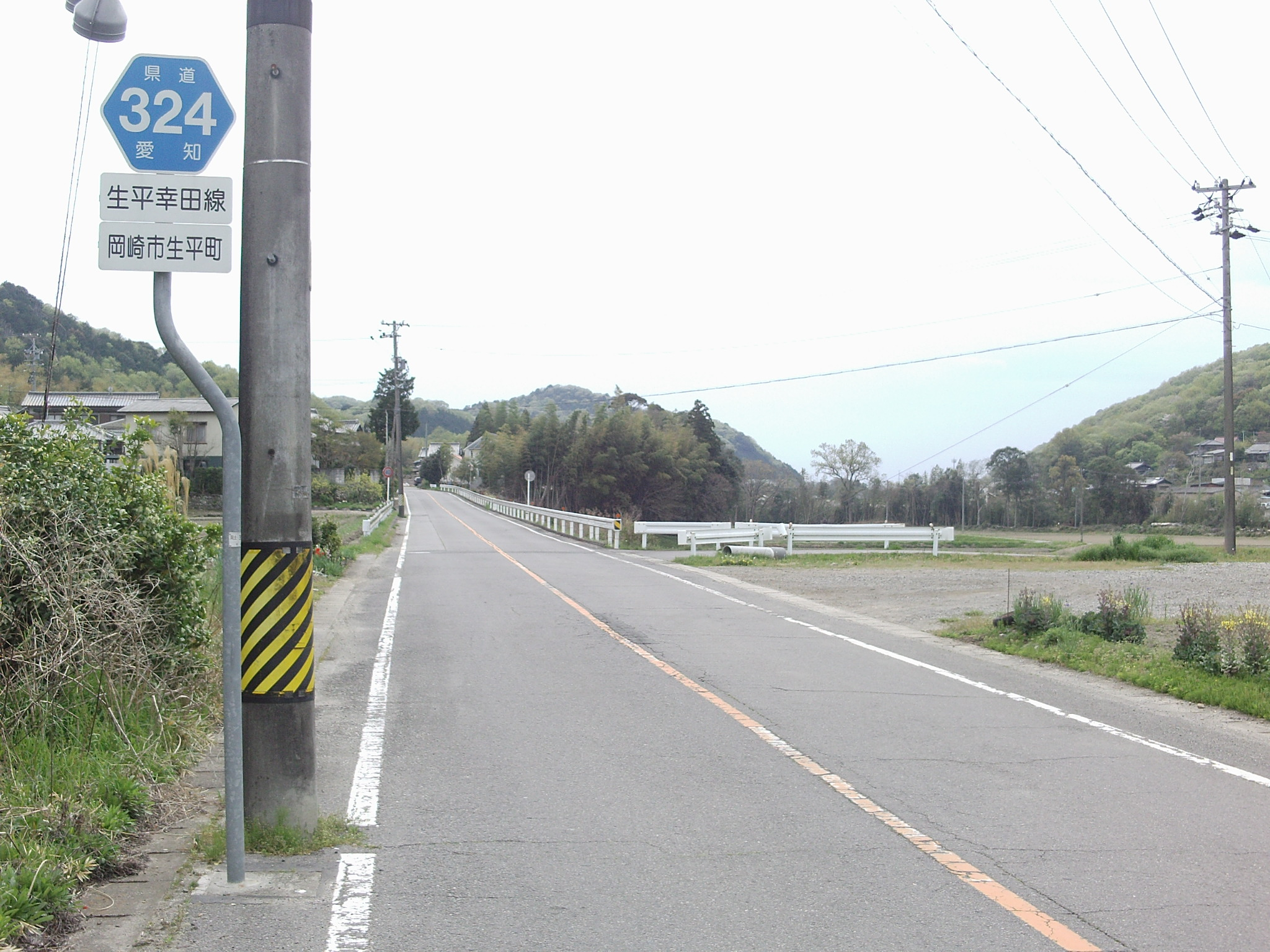 Aichi prefectural road No.324 in Oidairacho, Okazaki, Aichi.